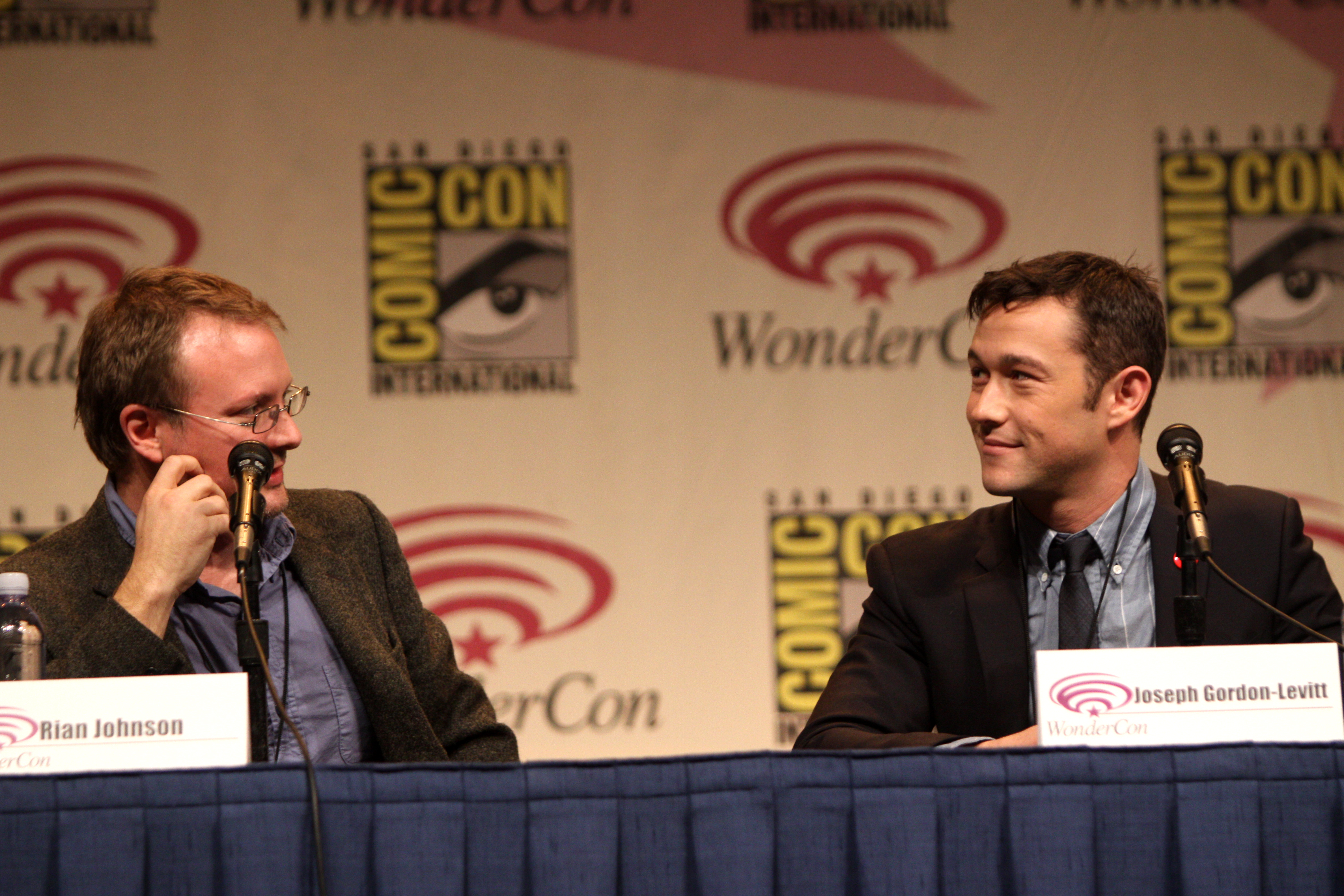 Joseph Gordon-Levitt and Rian Johnson speaking at the 2012 WonderCon in Anaheim, California.